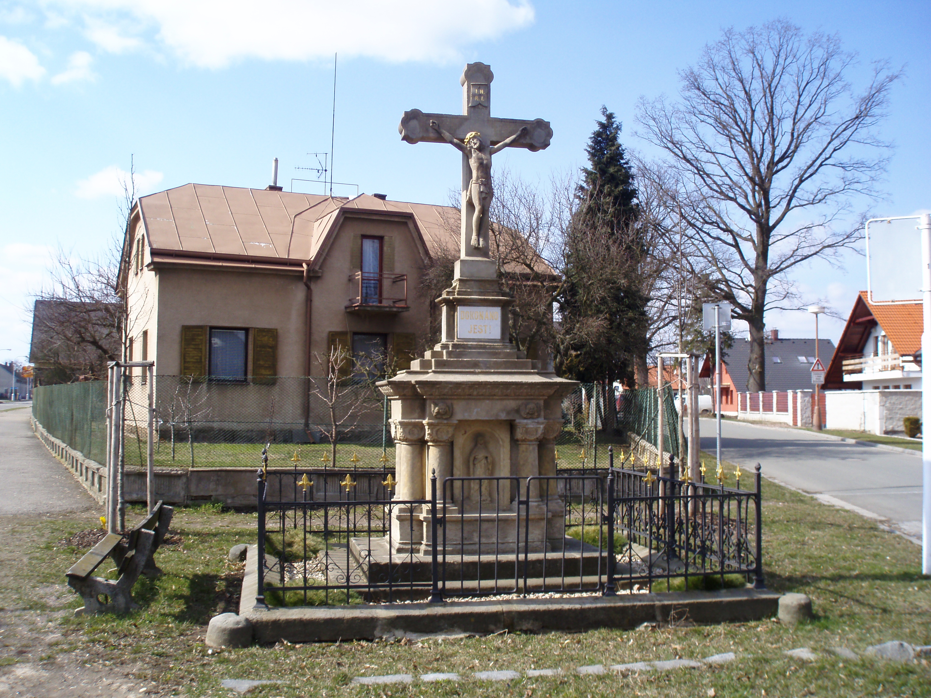 Cross in Svobodné Dvory (Hradec Králové)